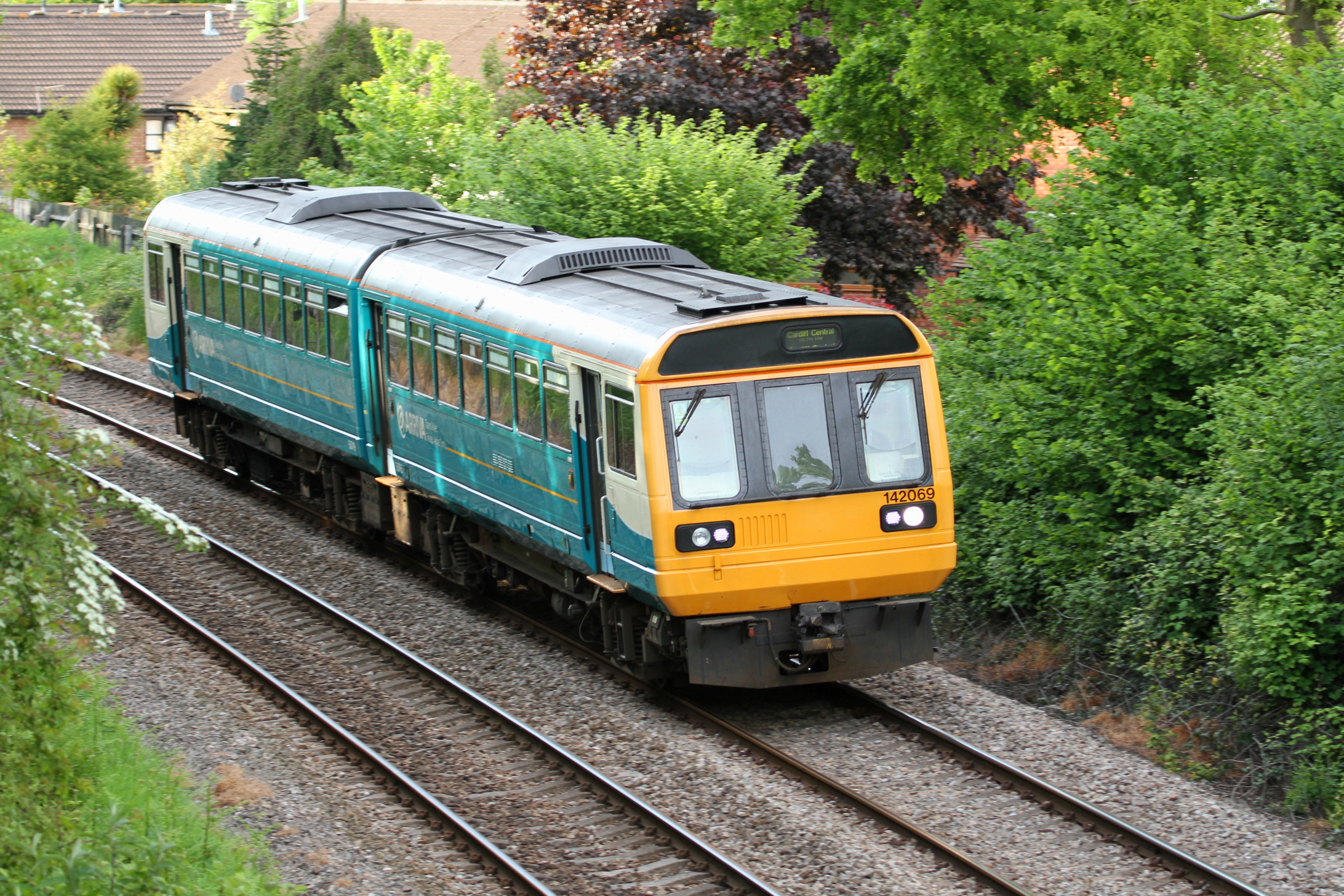 Arriva Trains Wales Class 142 diesel multiple unit approaching Danescourt station on a Cardiff City Line "up" working to Coryton